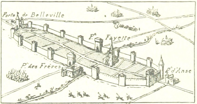 View this map on the BL Georeferencer service. Image taken from: Title: "Nouvelle Histoire de Lyon et des provinces de Lyonnais, Forez, Beaujolais, etc. [Illustrated by the author.]" Author: STEYERT, André. Shelfmark: "British Library HMNTS 10174.k.5." Volume: 03 Page: 144 Place of Publishing: Lyon Date of Publishing: 1895 Issuance: monographic Identifier: 003504498 Explore: Find this item in the British Library catalogue, 'Explore'. Download the PDF for this book (volume: 03) Image found on book scan 144 (NB not necessarily a page number) Download the OCR-derived text for this volume: (plain text) or (json) Click here to see all the illustrations in this book and click here to browse other illustrations published in books in the same year. Order a higher quality version from here.